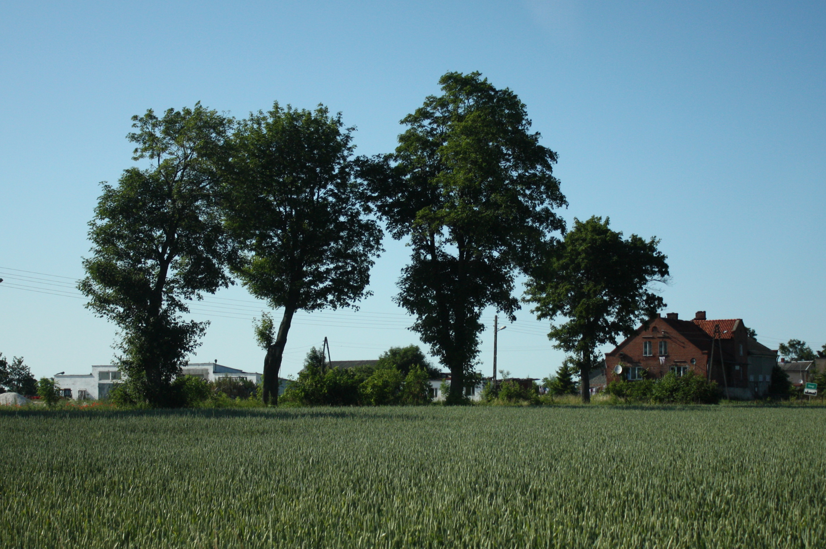 Stogi Malborskie